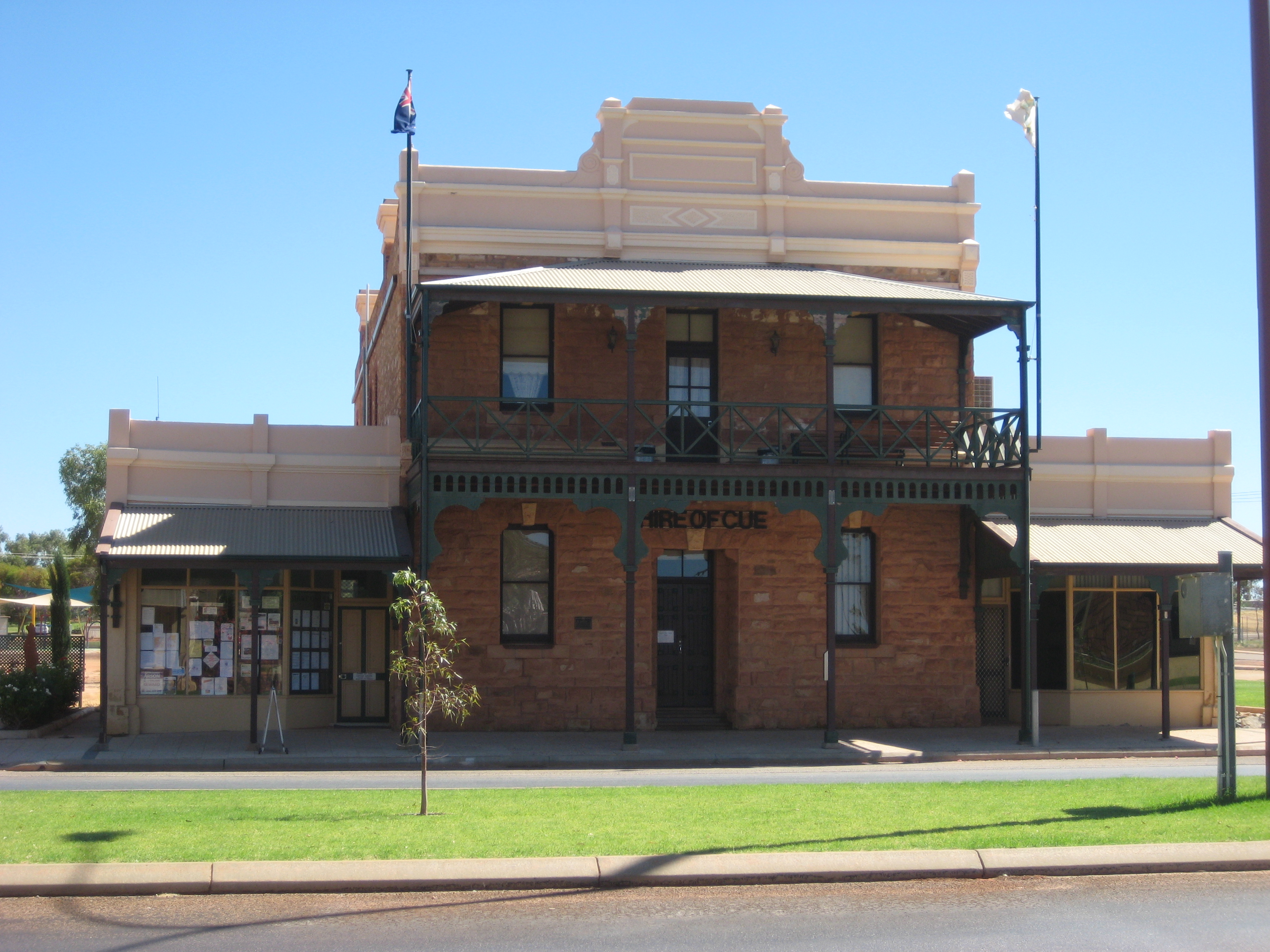 The shire office, formerly the Gentleman's Club, in Cue, Western Australia, built in 1895.